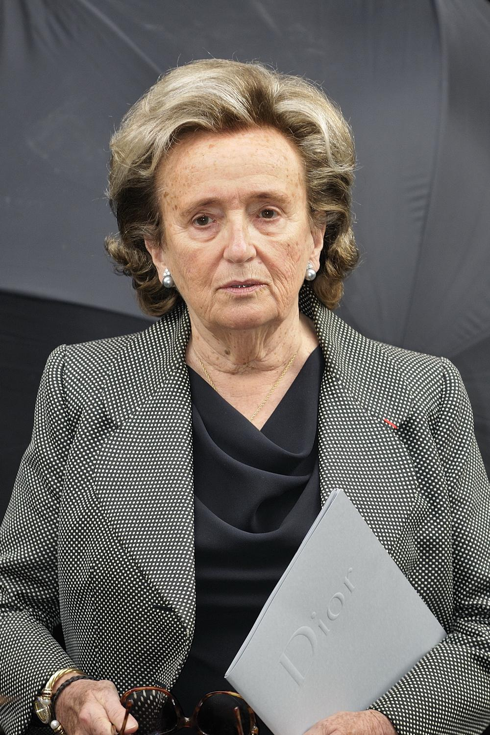 Bernadette Chirac — People aux défilés de Haute-Couture, Paris, le 6 Juillet 2009. Collection Automne-Hiver 2009/2010.